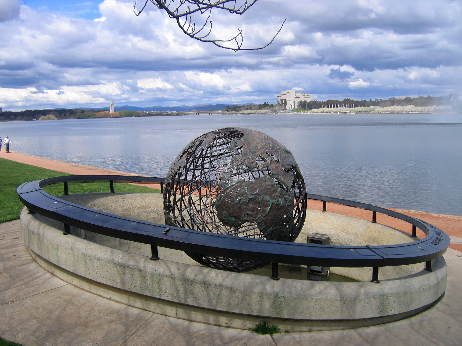 Captain James Cook Memorial Globe and High Court, Canberra